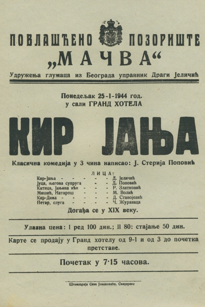 A poster for the play Kir Janja in Smederevo in 1944